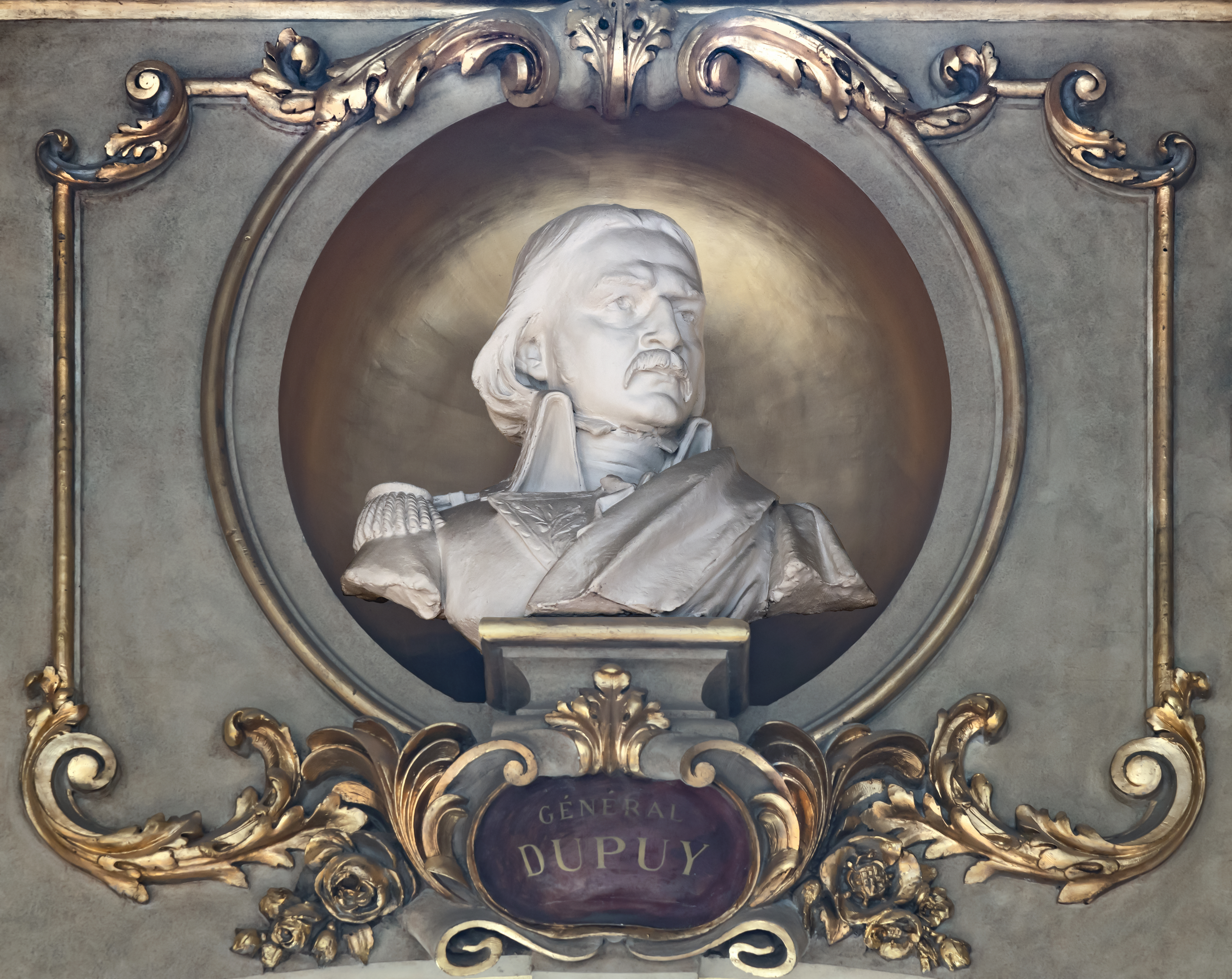 Depicted person: Dominique Martin Dupuy – French revolutionary general of brigade